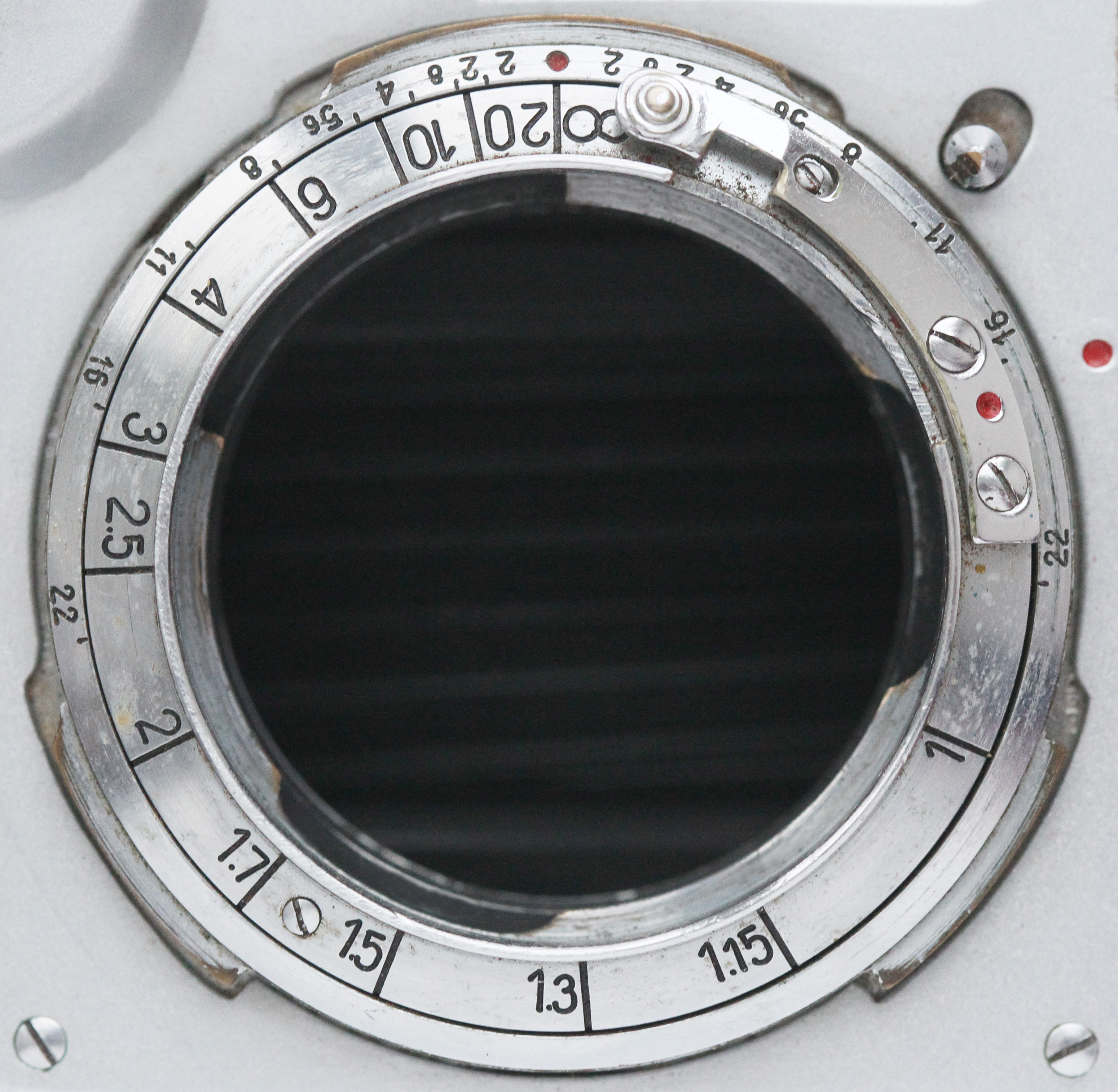 Contax pre-war rangefinder lens mount.